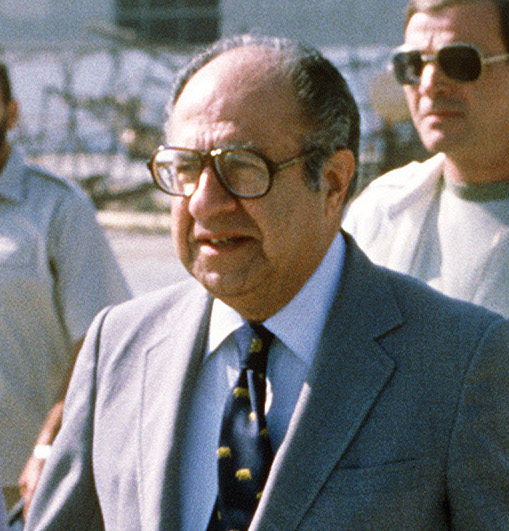 Philip Habib in Lebanon in 1982. U.S. Special Envoy Philip C. Habib meets with French, Italian and U.S. ambassadors to greet the first Marines to land as part of a multinational peacekeeping force. The force was sent here after a confrontation took place between Israeli forces and the Palestine Liberation Organization